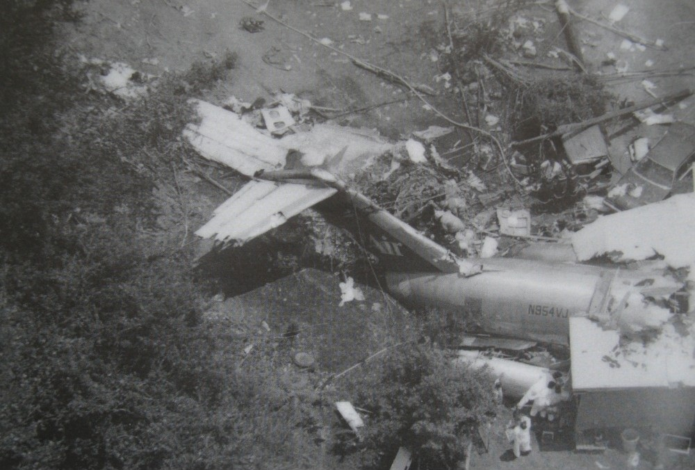 USAir Flight 1016. Charlotte, North Carolina.